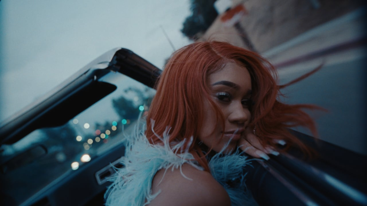 Saweetie in a car